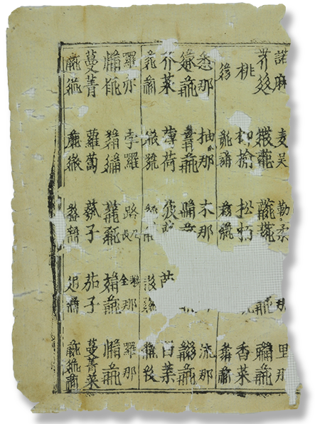 Single page (folio 14b) from a copy of the 12th century Chinese-Tangut glossary, The Pearl in the Palm (番漢合時掌中珠). Found at the Northern Mogao Grottoes, near Dunhuang, Gansu in 1989, and held at the Dunhuang Academy (cat. no. B184:9).